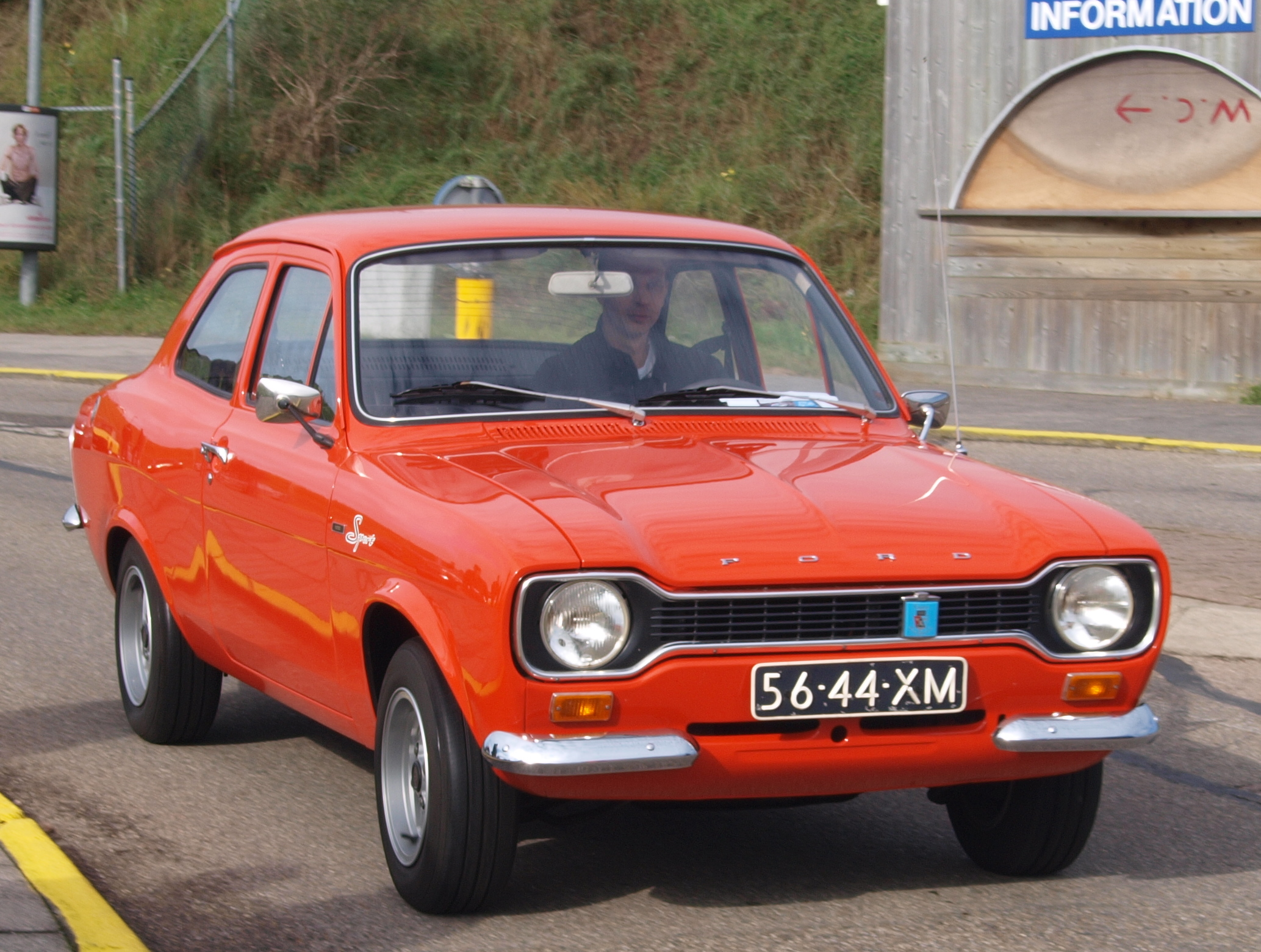 Photographed at the Nationaal Oldtimer Festival Zandvoort 2010, The Netherlands.